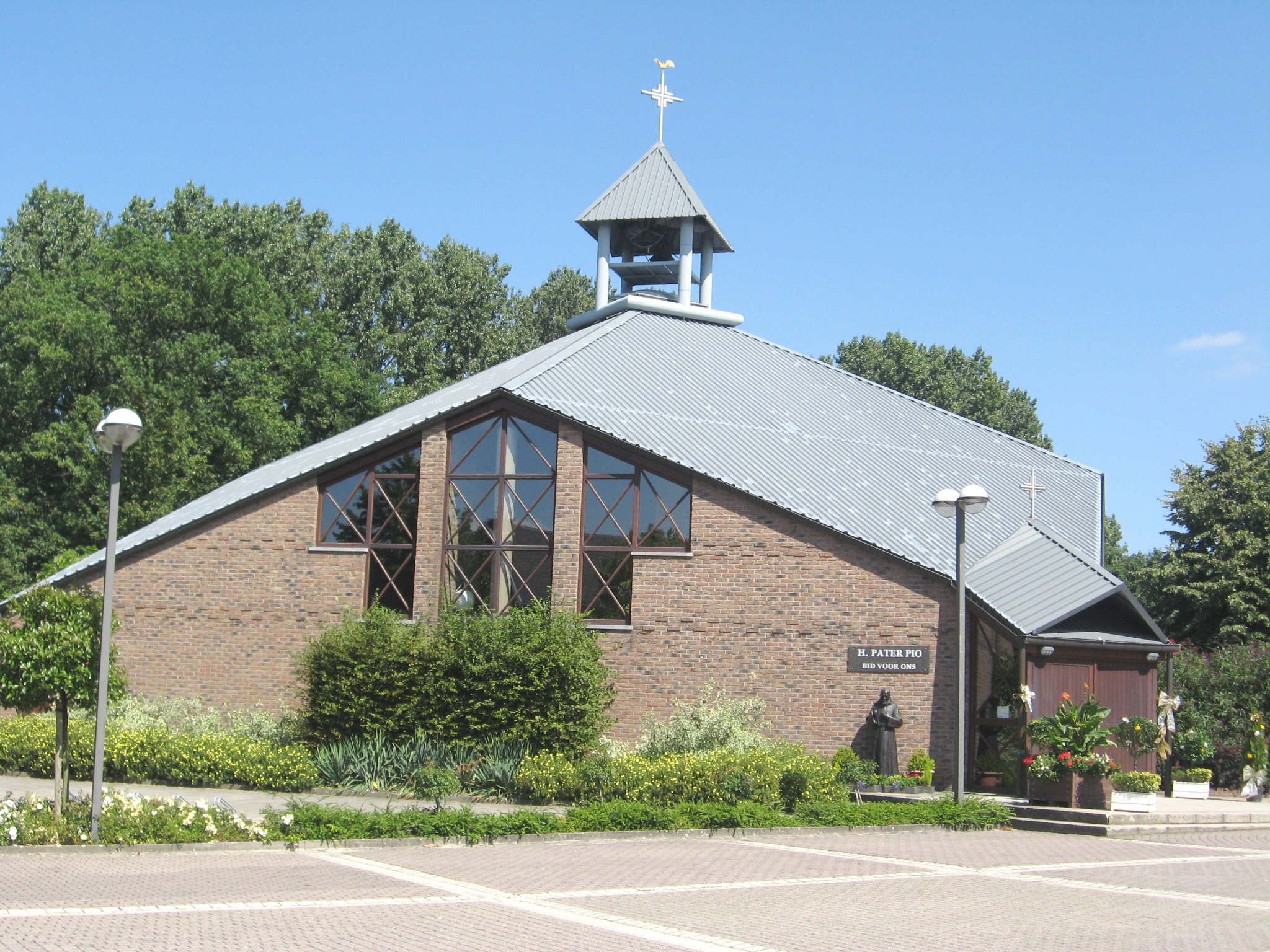 Church of Saint Donatus in Opoeteren (Dorne), Maaseik, Limburg, Belgium